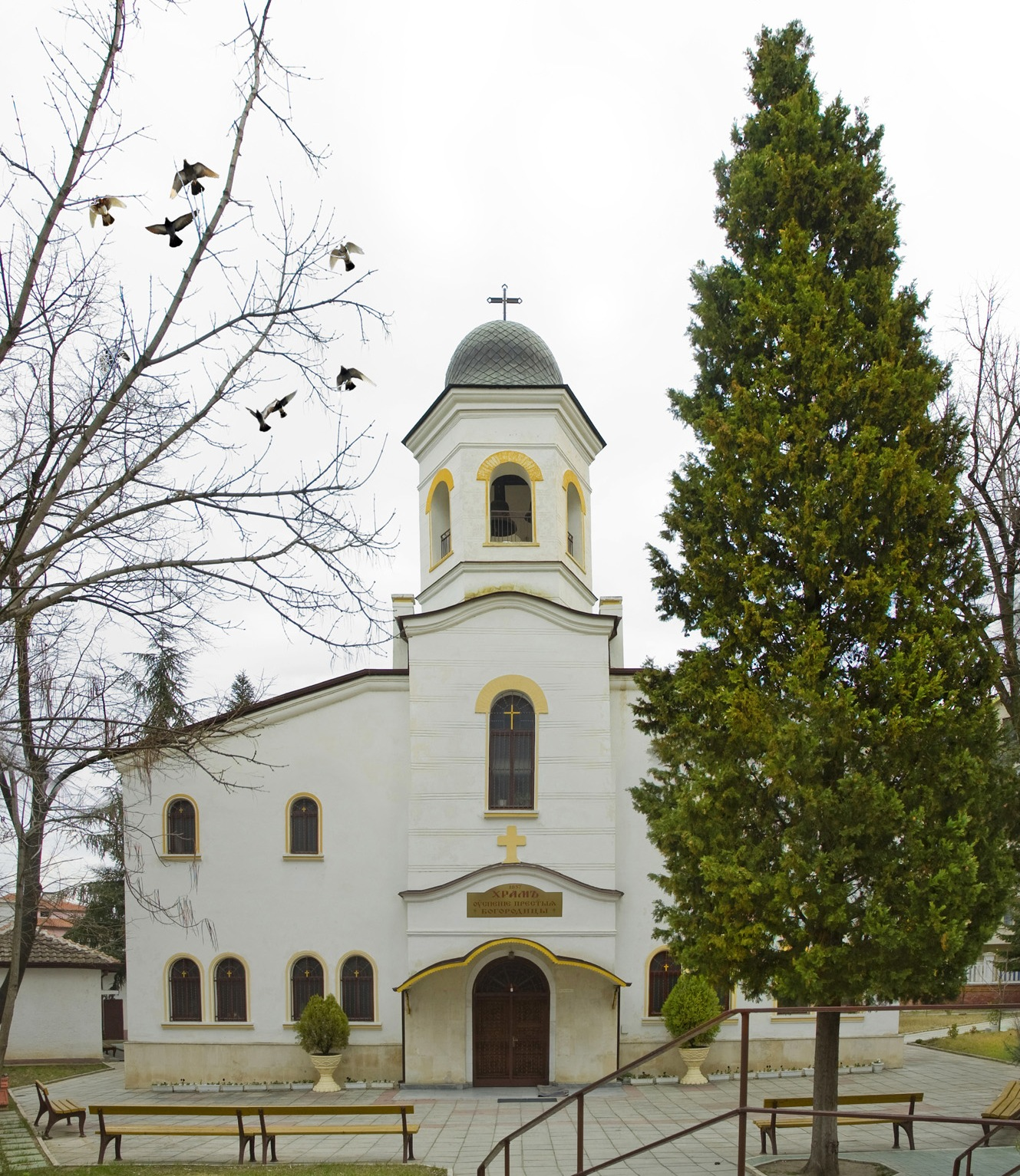 Church "Sv. Bogorodica" - Petrich city